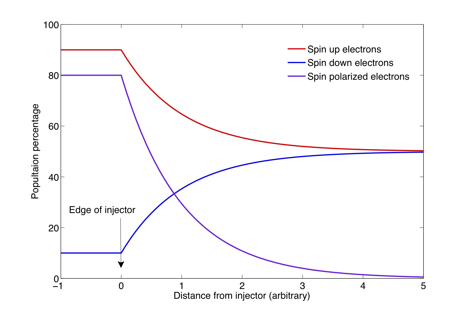 A graph showing a population of spin up and spin down electrons, as well as the resulting spin polarization in a solid. After leaving a spin polarized injector, the spin populations decay to 50% while the polarization decays to 0.